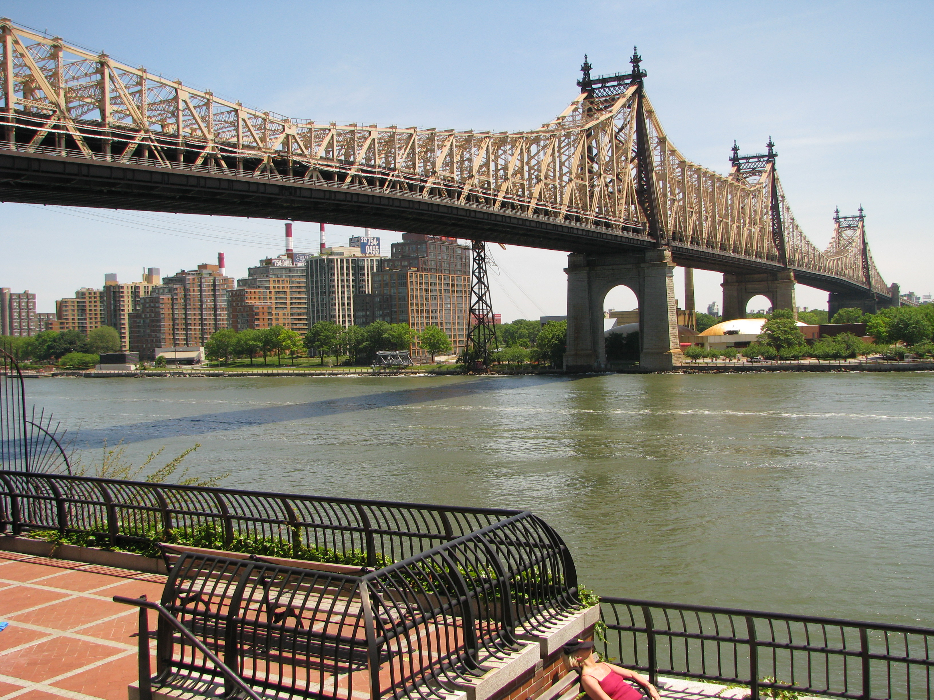 The Ed Koch Queensboro Bridge, a bridge between the Queens and Manhattan boroughs of New York City